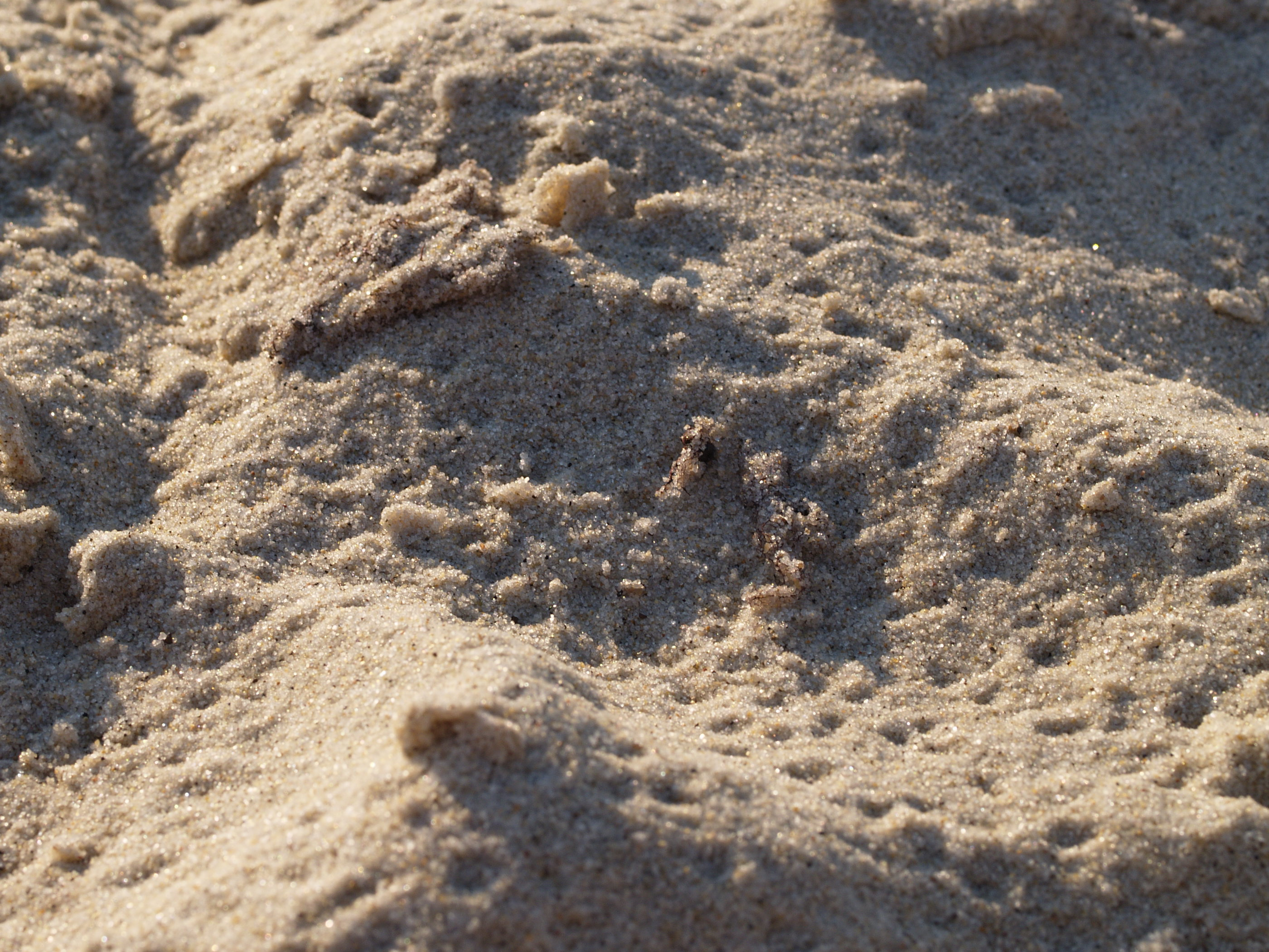 Talitrus saltator, just jumped off and the craters in the sand, at the beach of Baltic Sea at Bornholm island